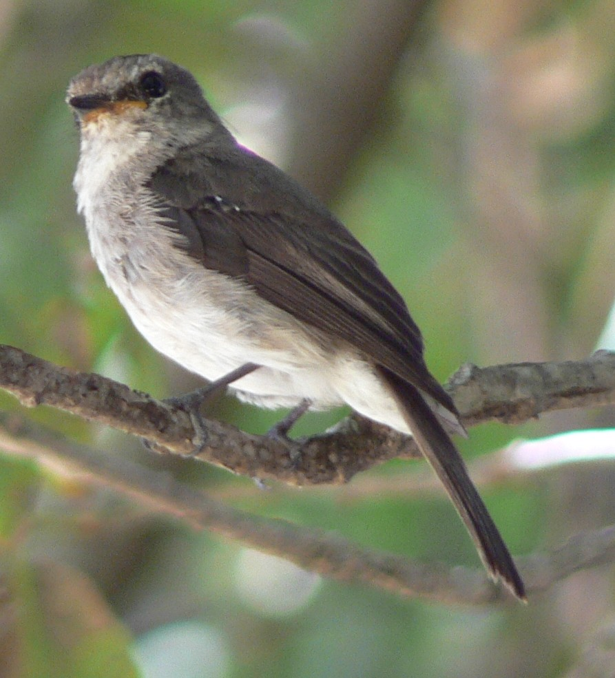 Taken by Oom_Kosie using a Panasonic FZ-5 camera in Swellendam, South Africa.